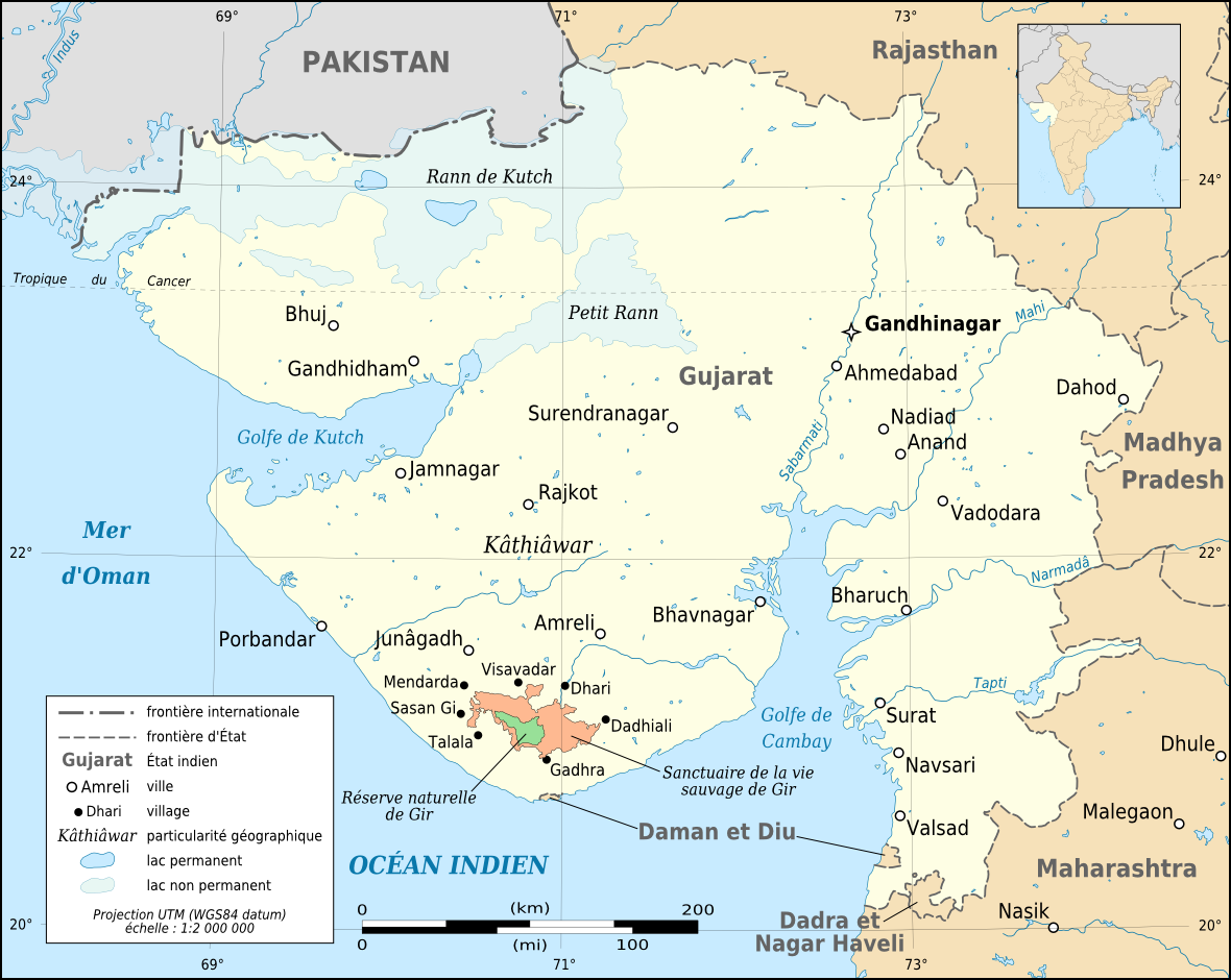 Map in French of the Indian state of Gujarat, with the Gir Wild Life Sanctuary and National Park.